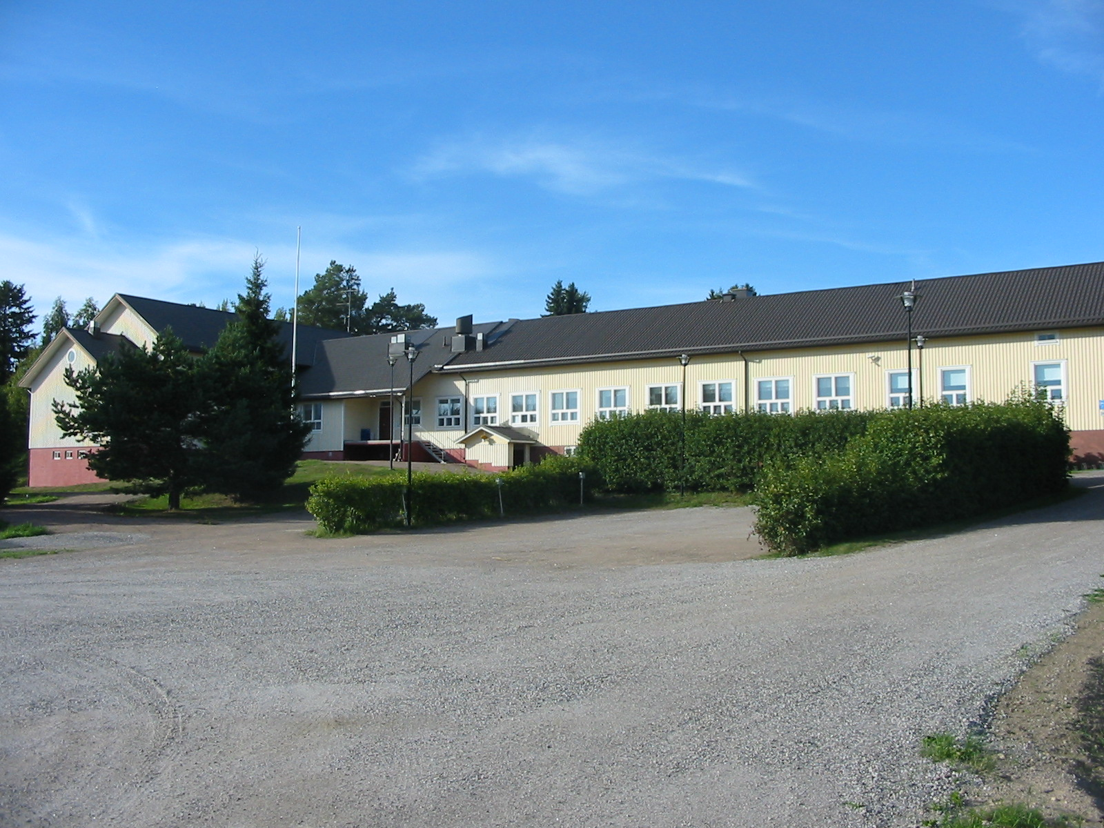 Huhta school in Huhta, Eurajoki, Finland.